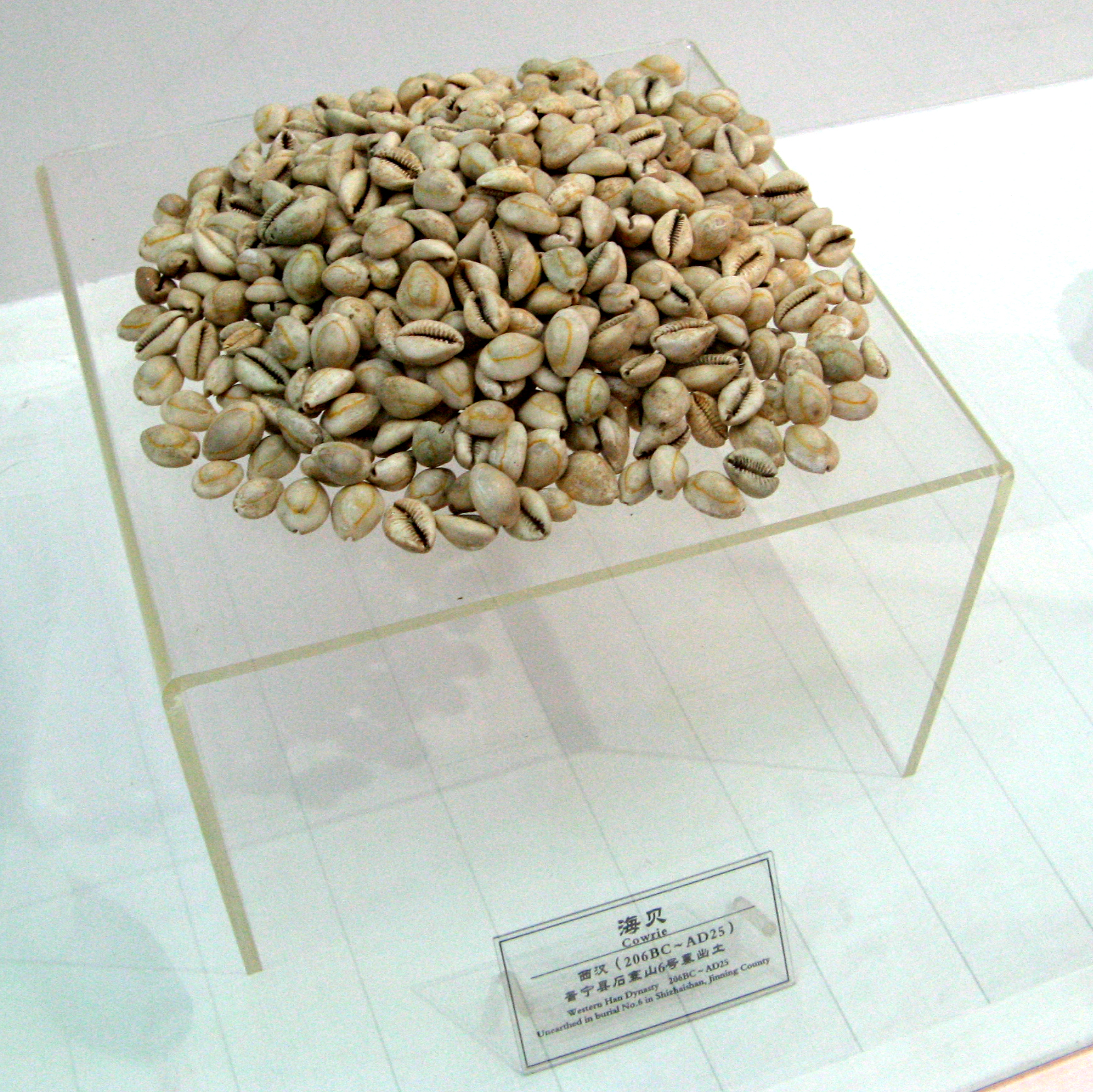 Cowrie Shells. Western Han Dynasty (206 BC - 25 AD). Yunnan Provincial Museum, Kunming These natural shells were used as money, and kept in bronze containers like those that are located elsewhere in the museum.